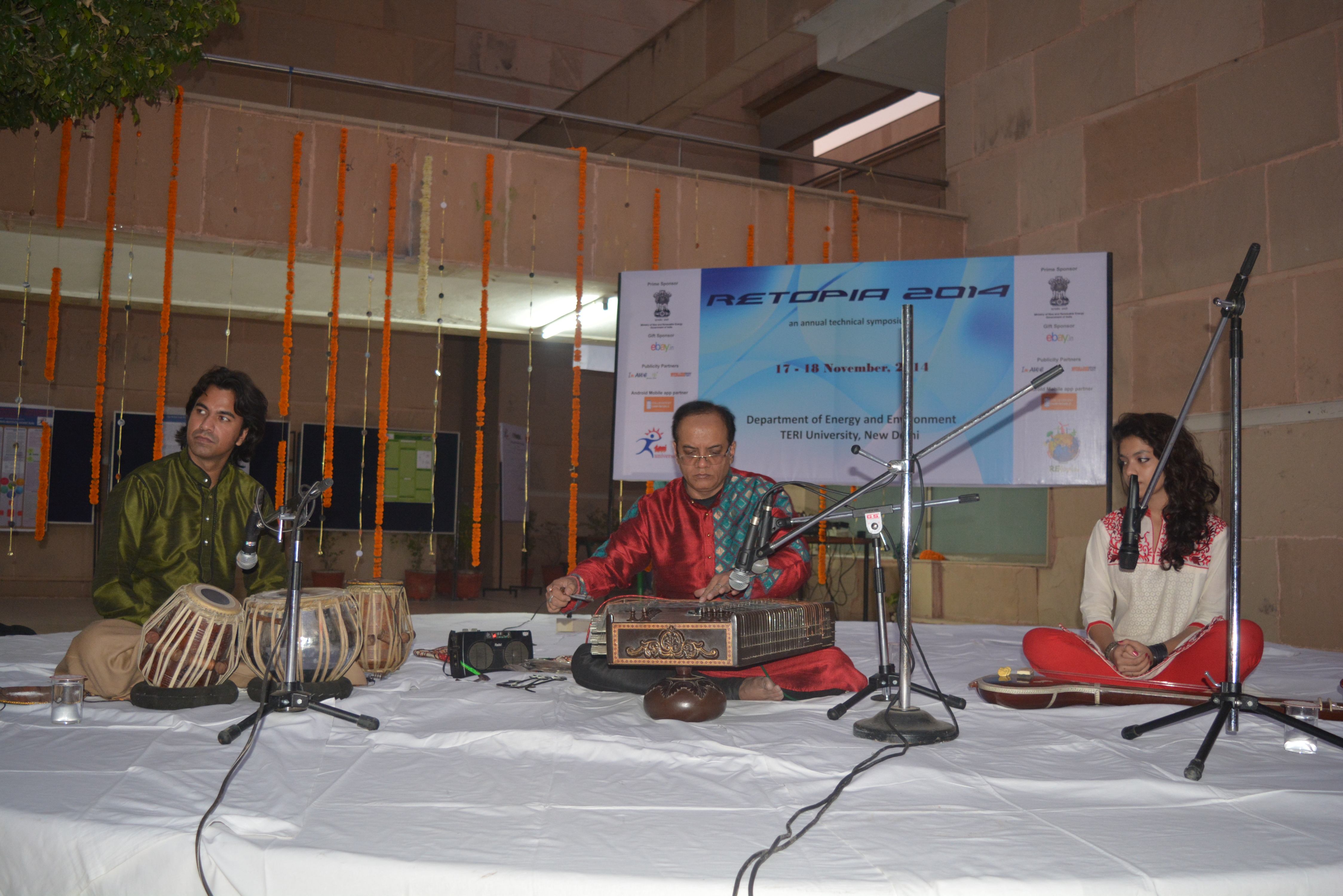 Santoor Event Organised at Teri University during its annual Retopia Festival.